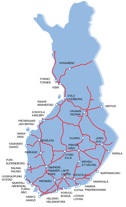 Finnish railway network